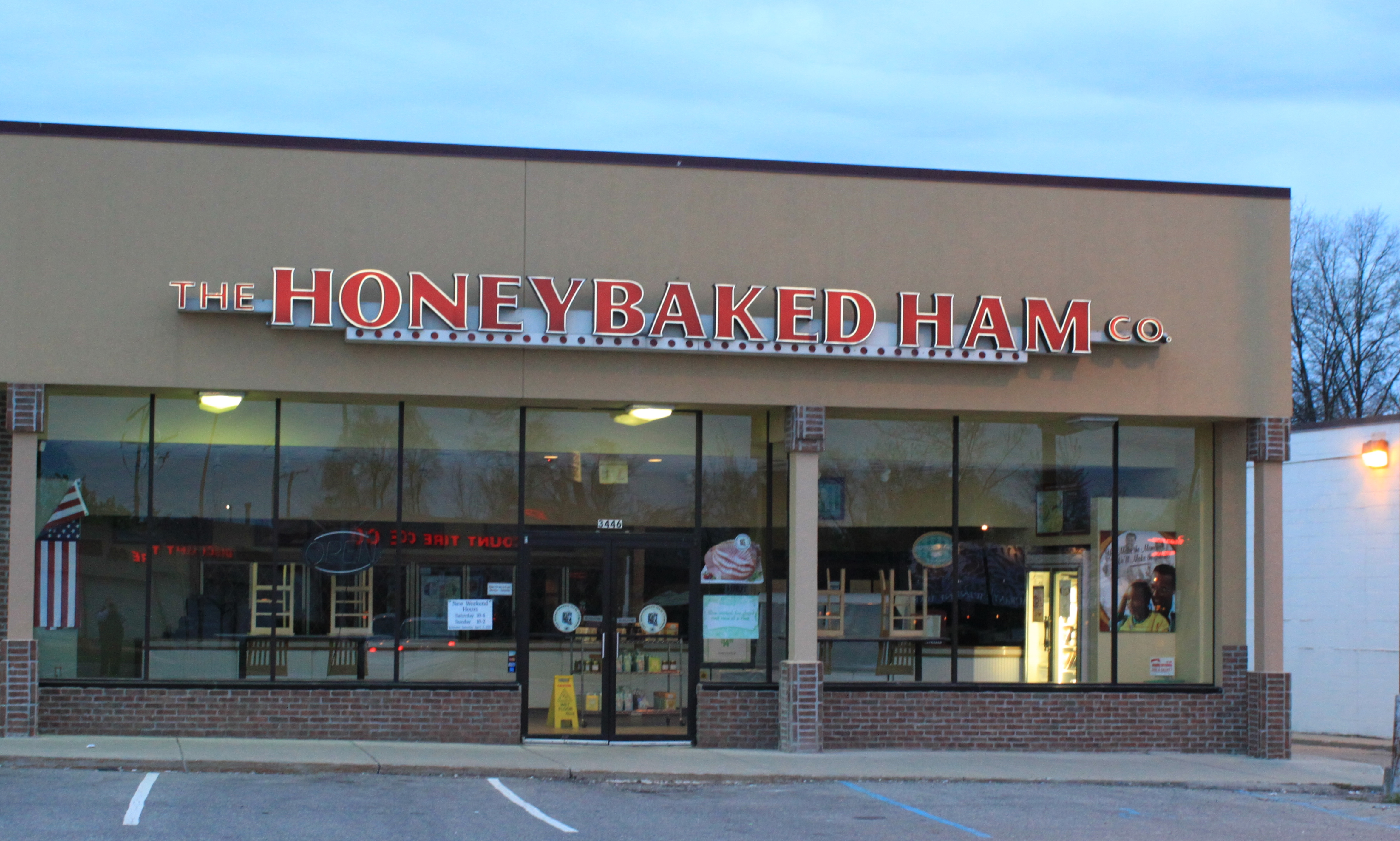 The HoneyBaked Ham store, 3446 Washtenaw Avenue, Ann Arbor, Michigan